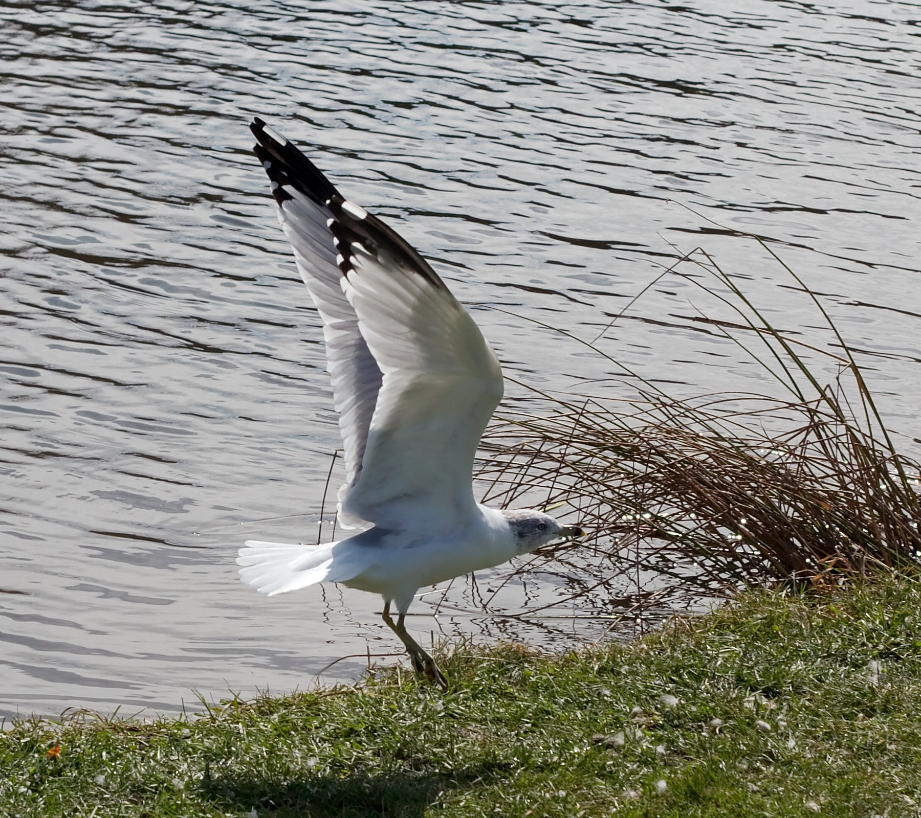 Larus delawarensis taken at a park in Madison, Wisconsin